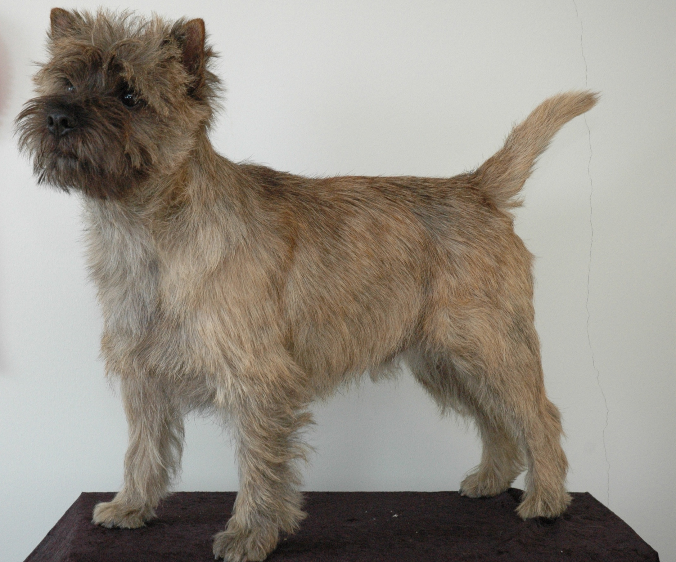 A stacked up Cairn Terrier